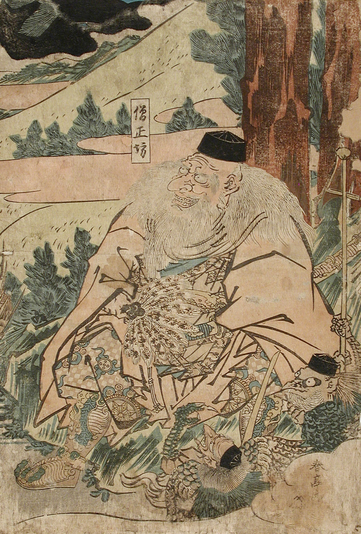 Japan, late 18th-early 19th century Prints; woodcuts Color woodblock print 14 13/16 x 10 1/8 in. (37.6 x 25.7 cm) Gift of Mr. and Mrs. F.G. Notehelfer (AC1995.206.1) Japanese Art